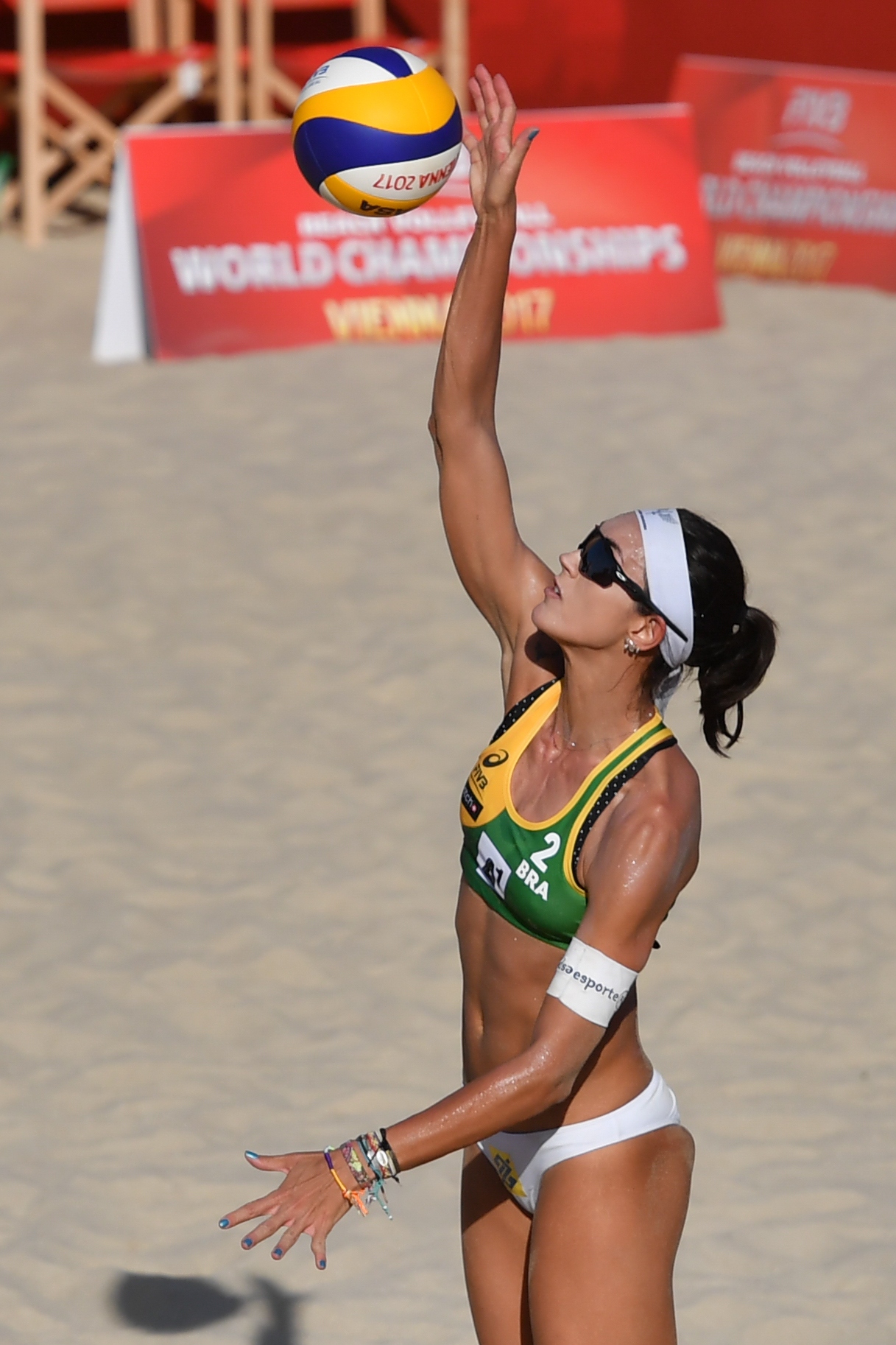 31/7/17, Vienna, Austria, sports, beach volleyball, FIVB Beach Volleyball World Championships.